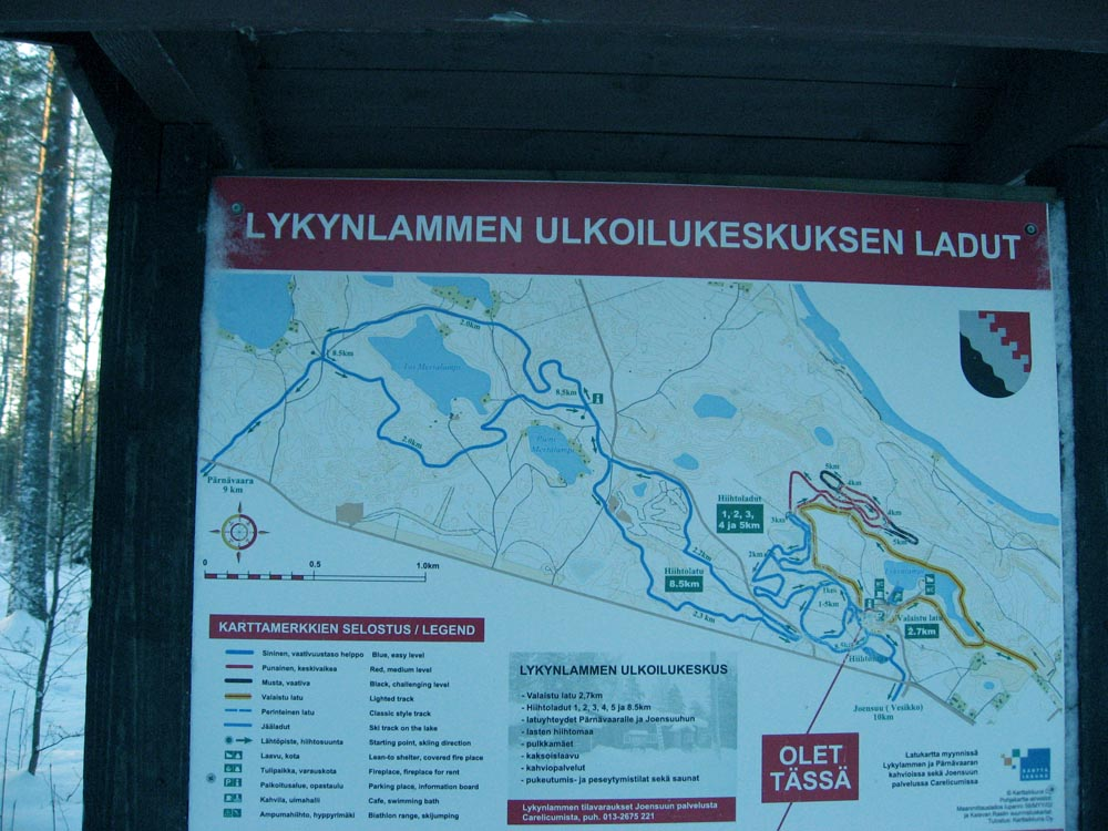 Lykynlampi skiing centre in Joensuu, Finland